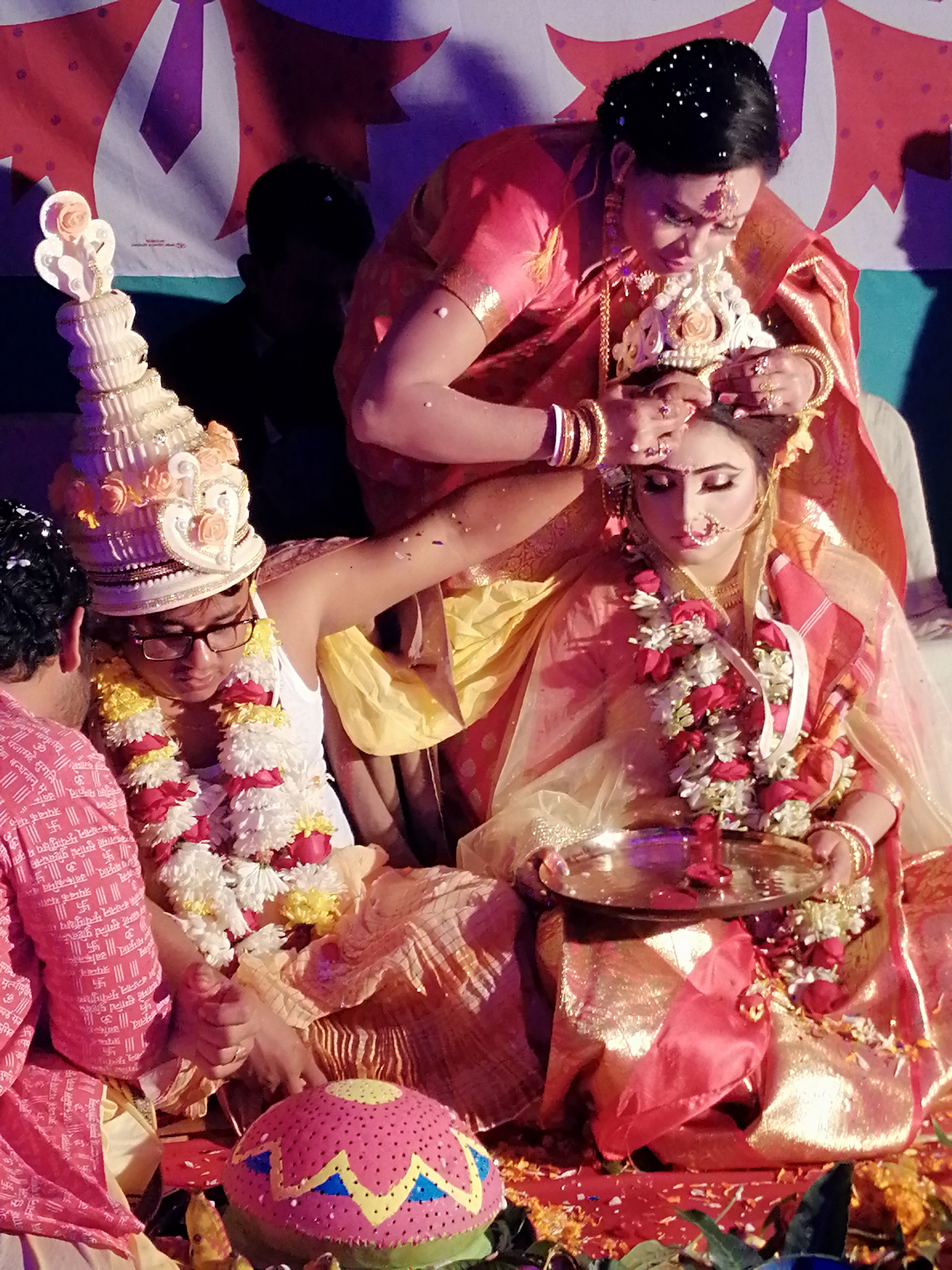 The groom puts a vermilion mark on the forehead of the bride and also uses a new saree as a veil to cover her head. This marks the end of the wedding rituals and the couple is declared man and wife. This photo has been taken in the country: Bangladesh